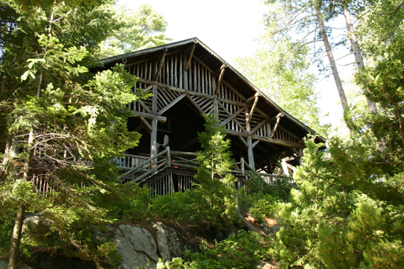 Main Lodge (Adirondack style architecture) at Girl Scout Camp Eagle Island, Upper Saranac Lake, New York Great Camp architecture in the Adirondacks